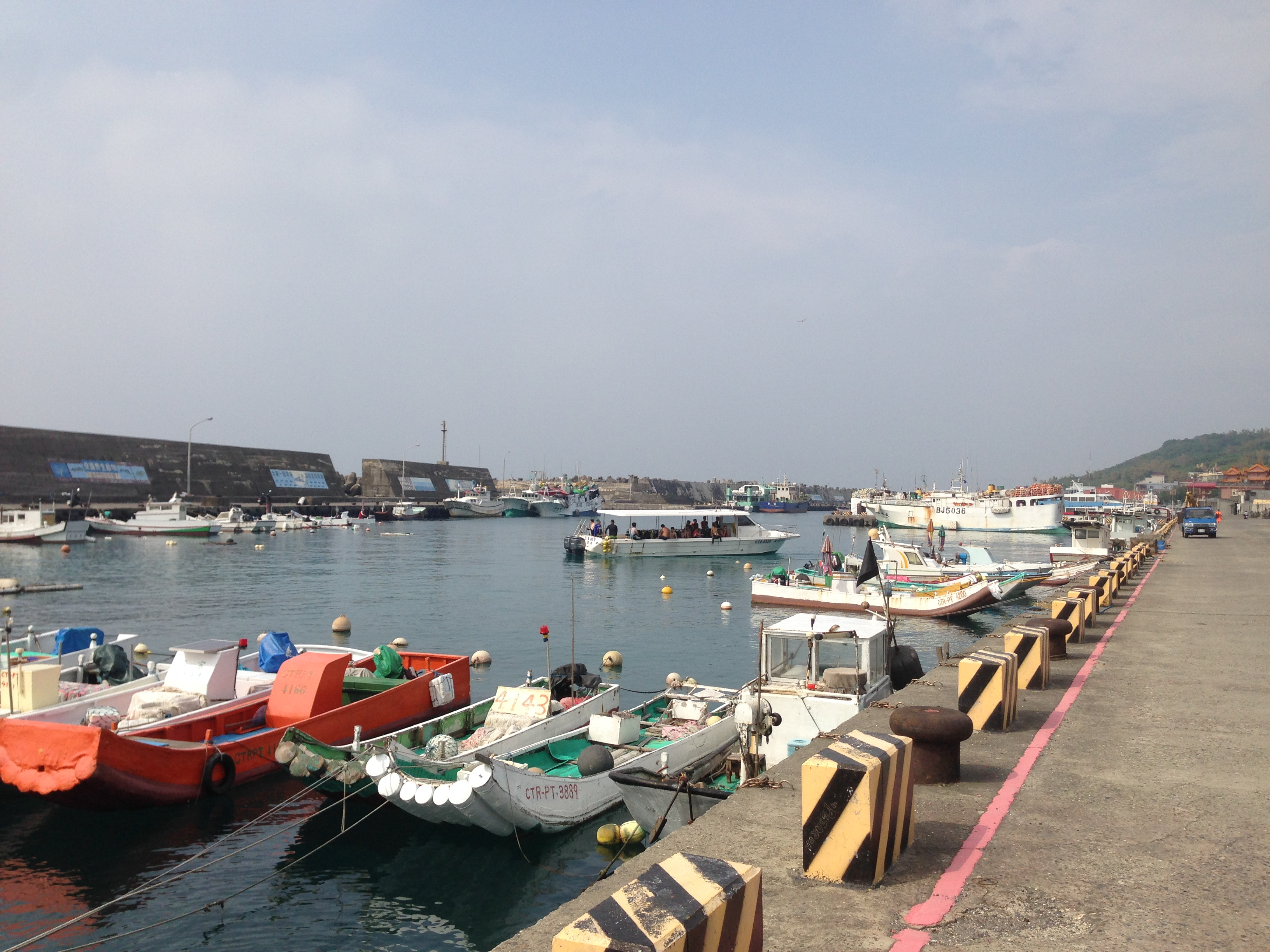 Dafu Port中文（台灣）: 小琉球大福漁港